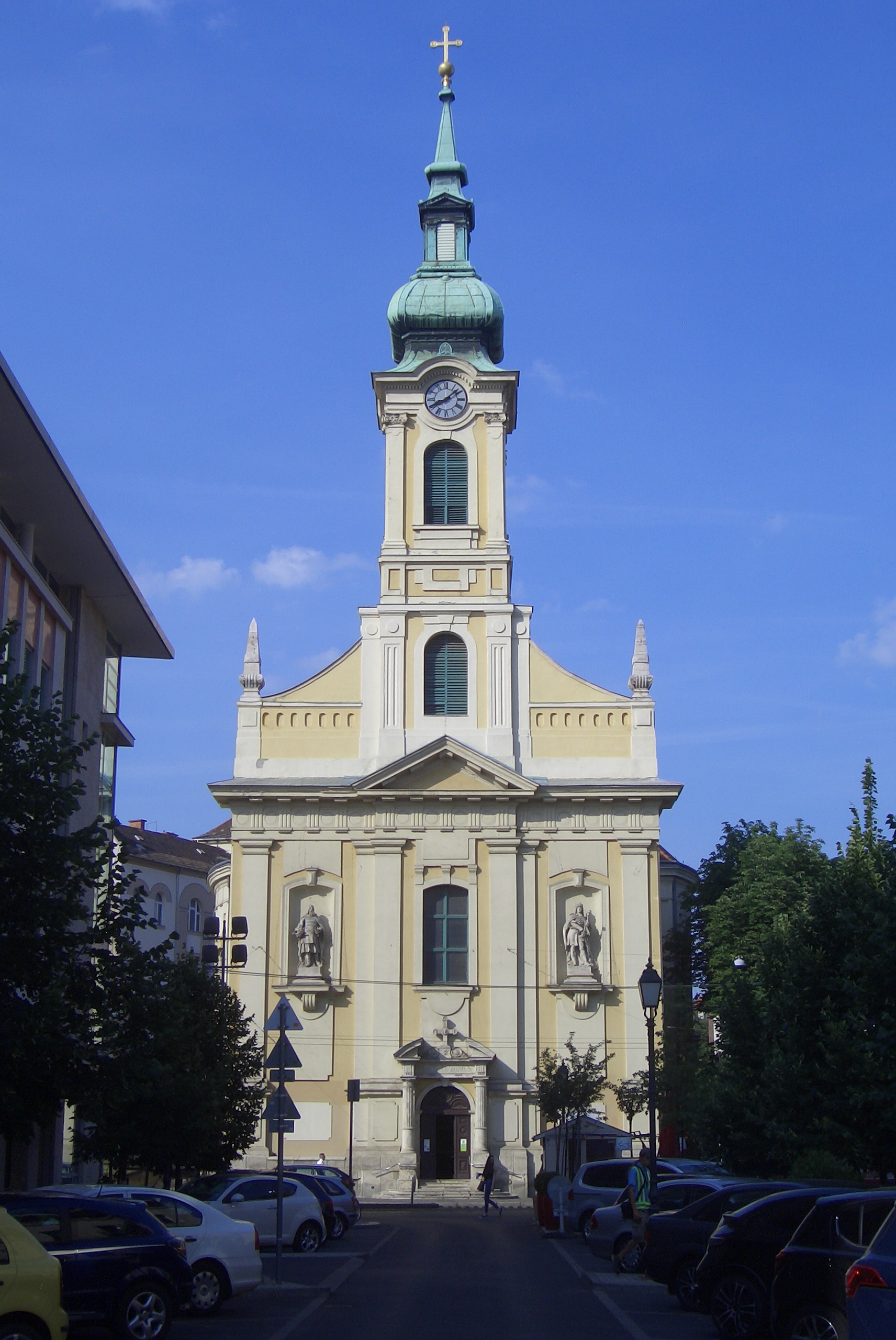 Church of Krisztinaváros, Budapest, 1st district, main front from the West